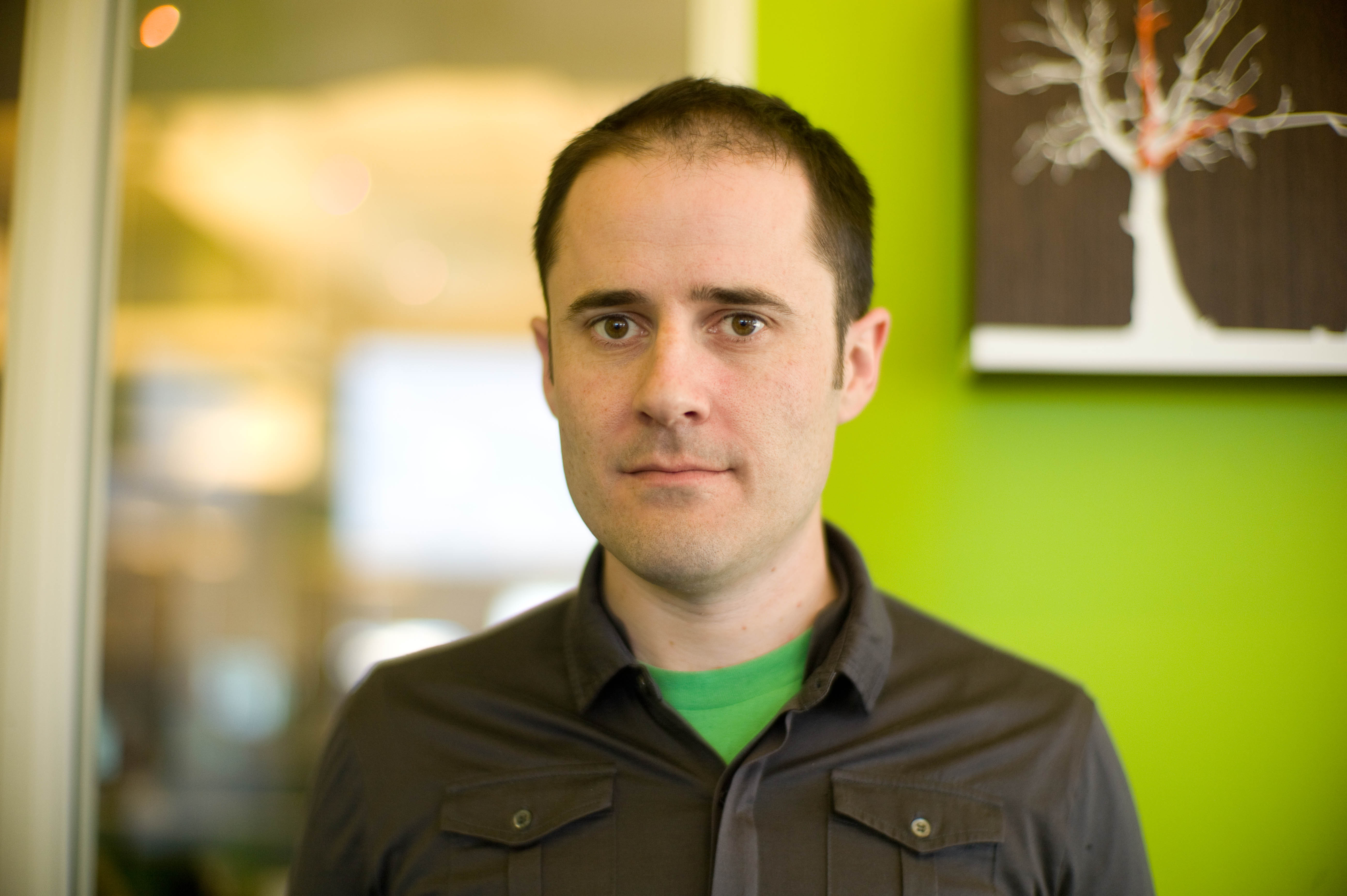 Evan Williams